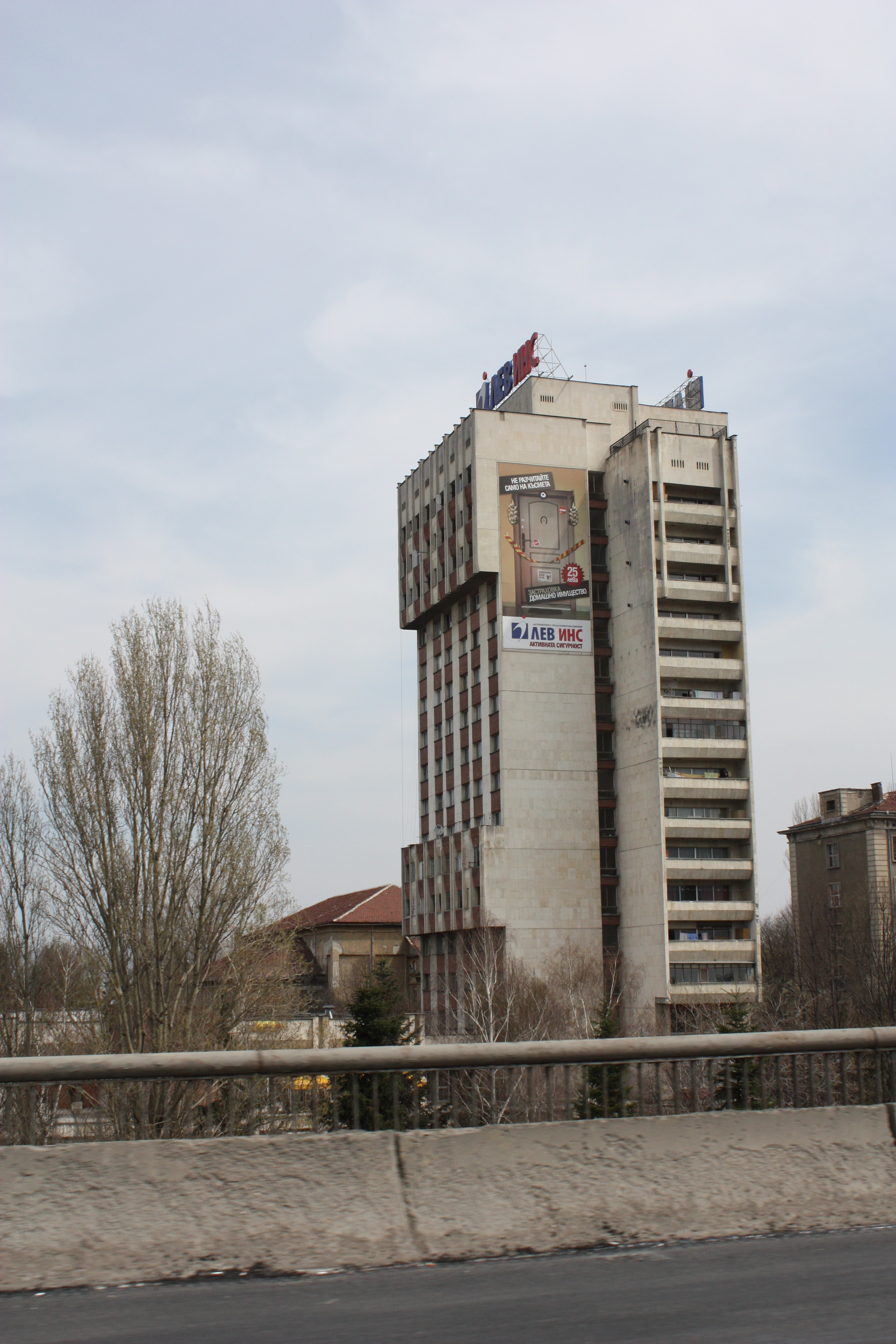 Streets in Sofia, Sofia, Bulgaria